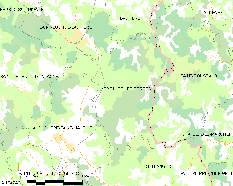 Map of French municipality Jabreilles-les-Bordes